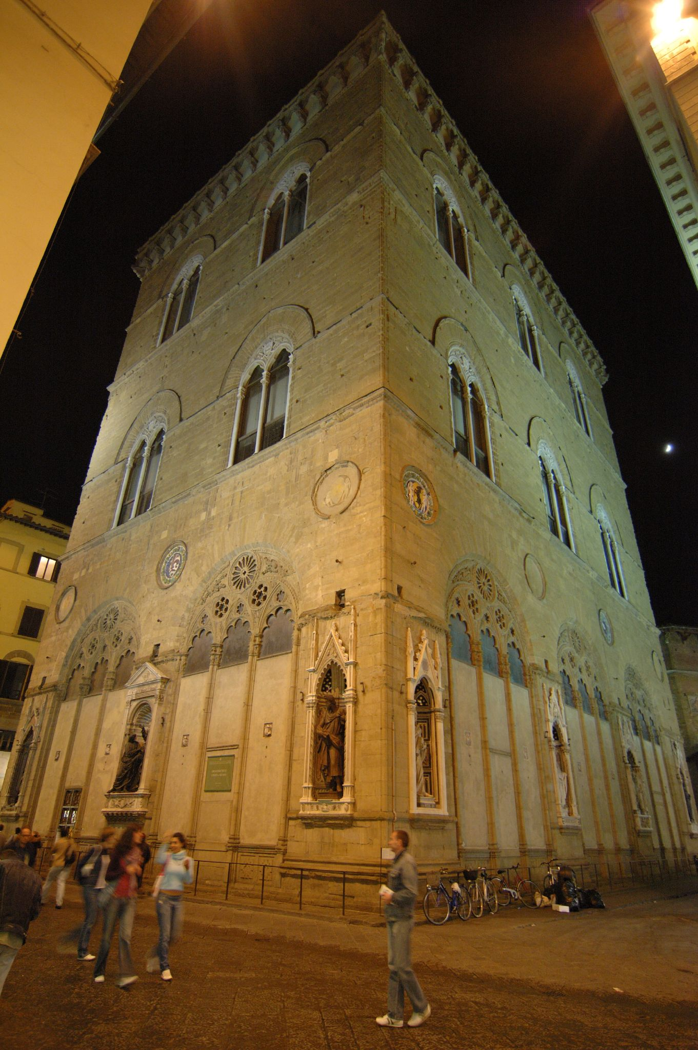 see above